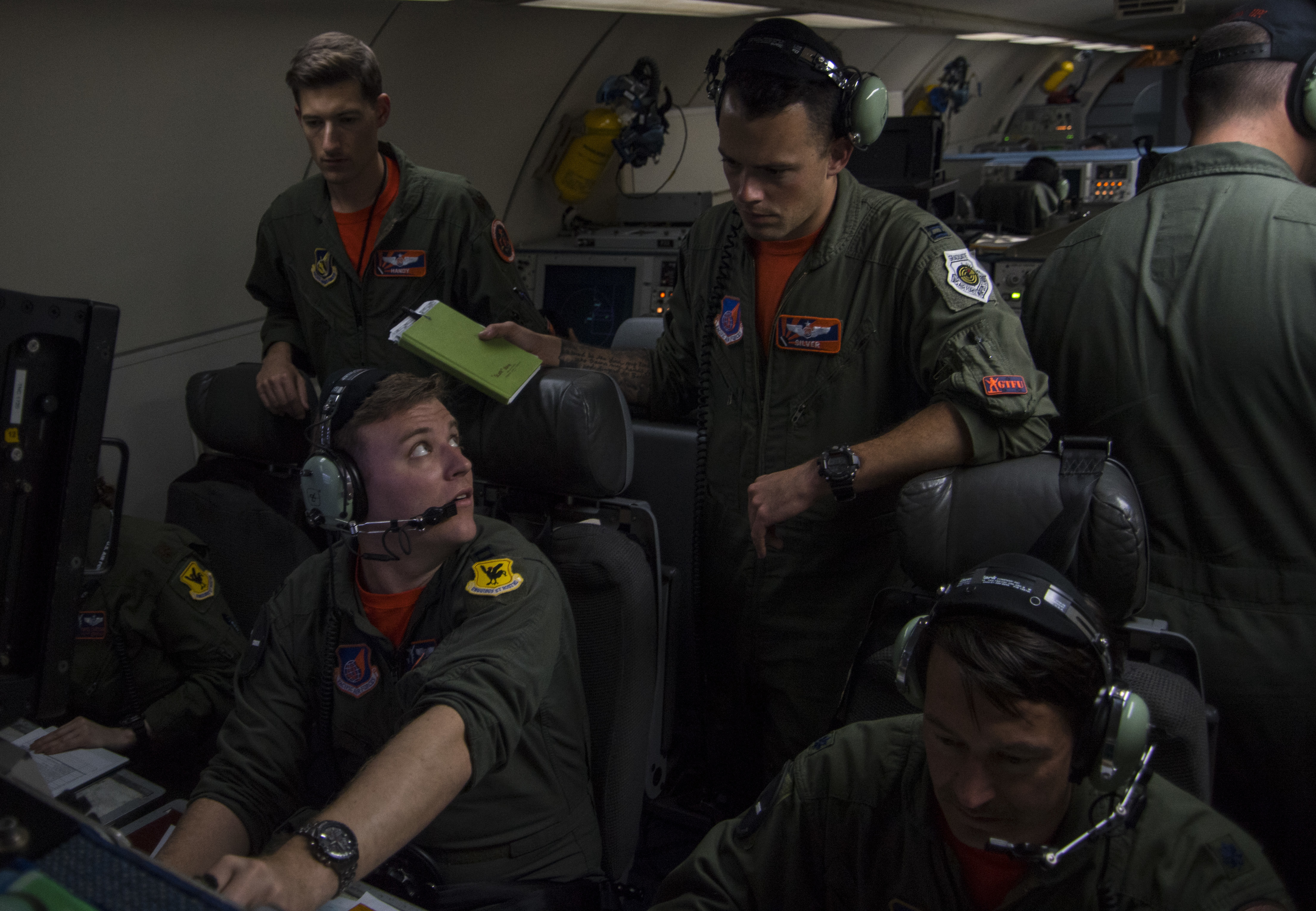 U.S. Air Force Airmen from the 961st Airborne Air Control Squadron out of Kadena Air Base, Japan, discusses locations and strategies to maintain air superiority aboard an E-3B Sentry during Cope North 2019, Mar. 1, 2019, at Andersen Air Force Base, Guam. CN19 is a long-standing exercise designed to enhance multilateral air operations amongst the partner nations and will include humanitarian assistance and disaster relief airlift operations as well as large-force employment. Approximately 2,000 U.S. Airmen, Marines, and Sailors will participate alongside approximately 800 RAAF and JASDF members during the exercise. (U.S. Air Force Photo by Senior Airman Xavier Navarro)